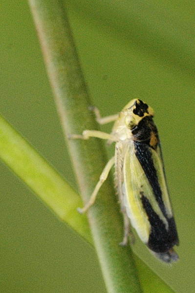 Picture taken in Commanster, Belgian High Ardennes . Species: Evacanthus interruptus